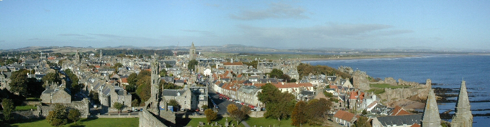 A panorama I took of St Andrews from the top of St Rule's Tower.